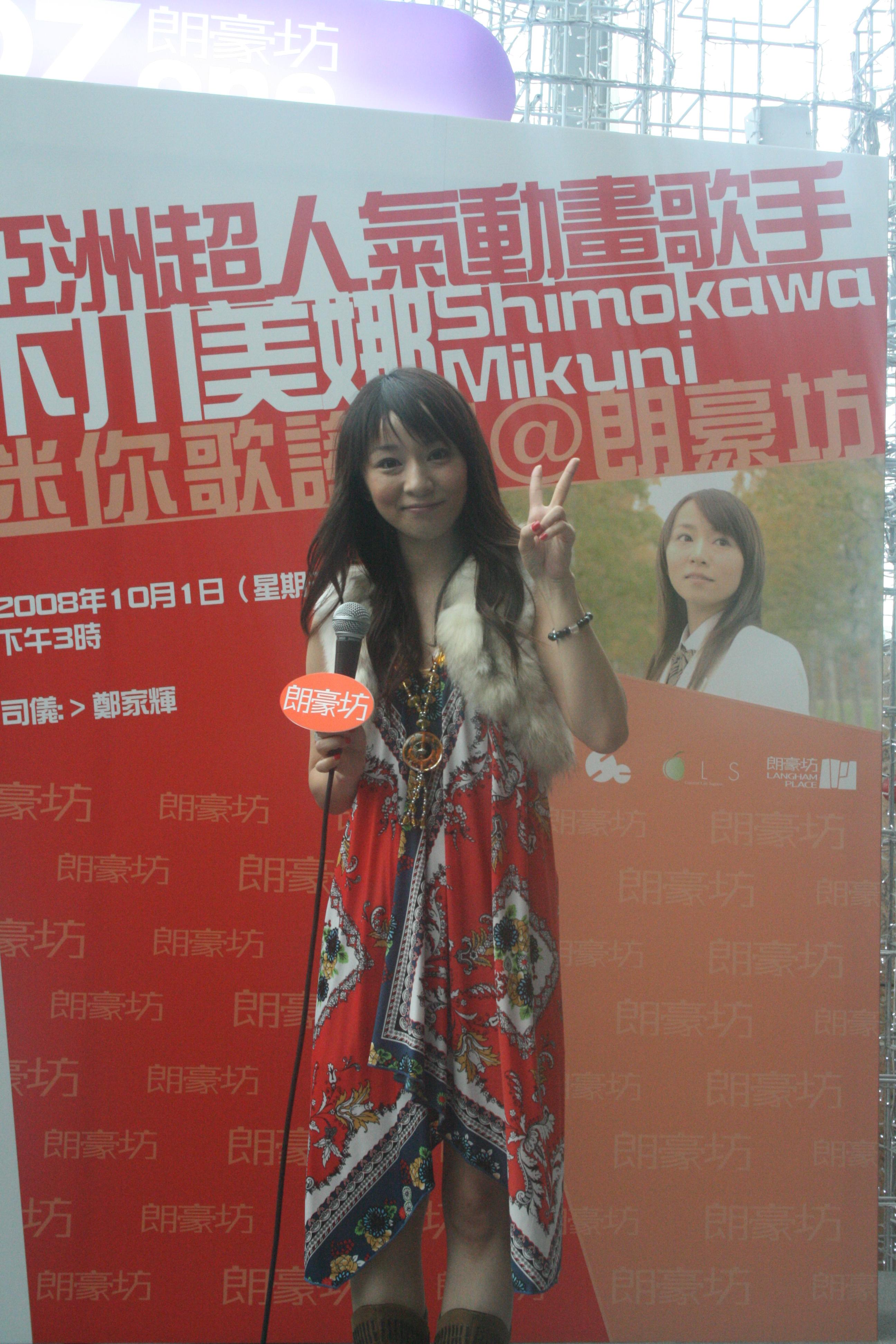 Mikuni Shimokawa at Langham Place, Hong Kong.